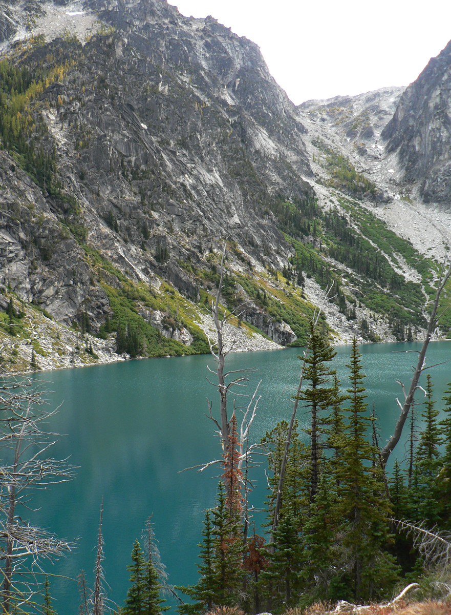 Colchuck Lake and Aasgard Pass in the Alpine Lakes Wilderness, Washington, United States